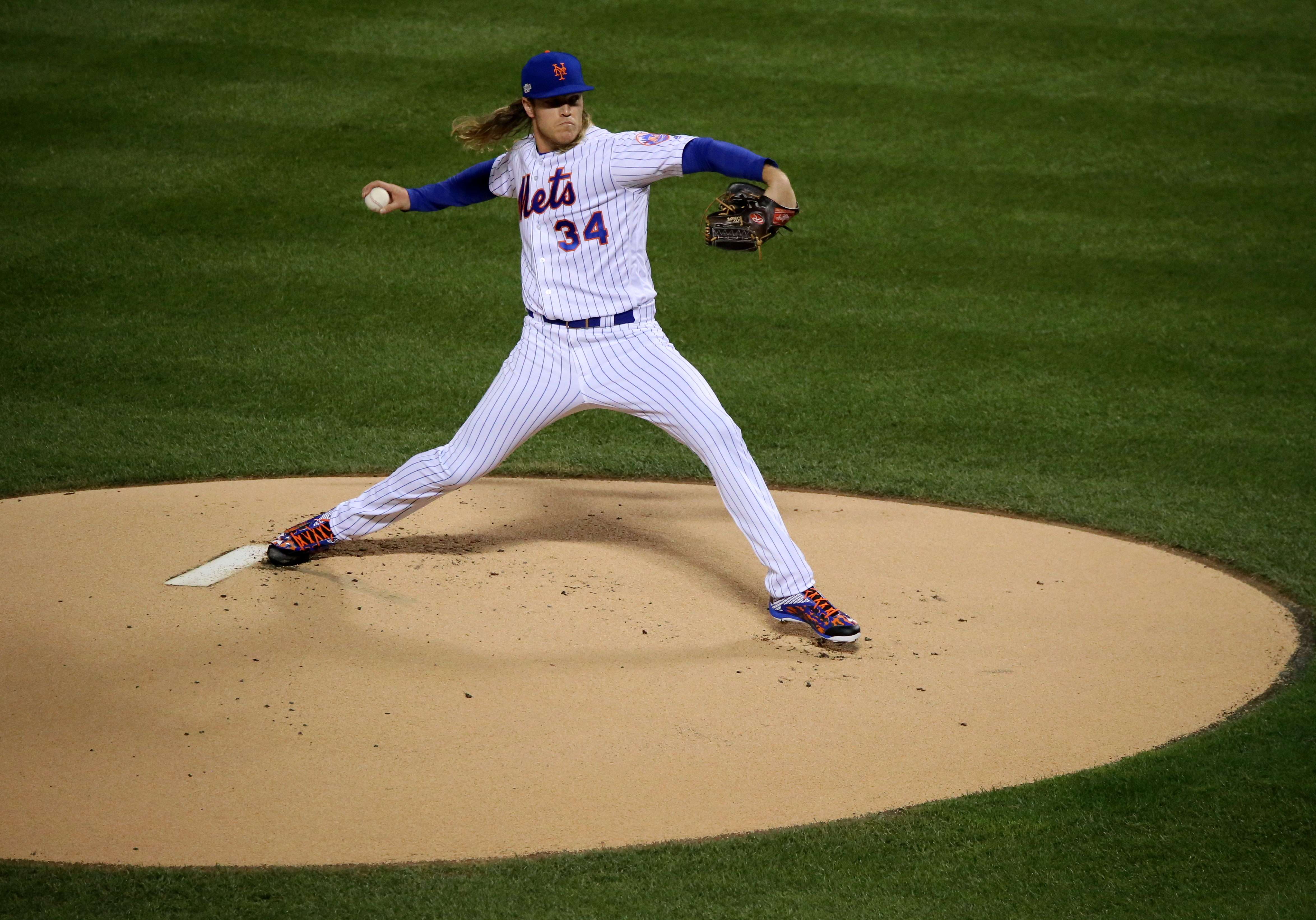 Mets starter Noah Syndergaard delivers a pitch during the NL Wild Card Game.